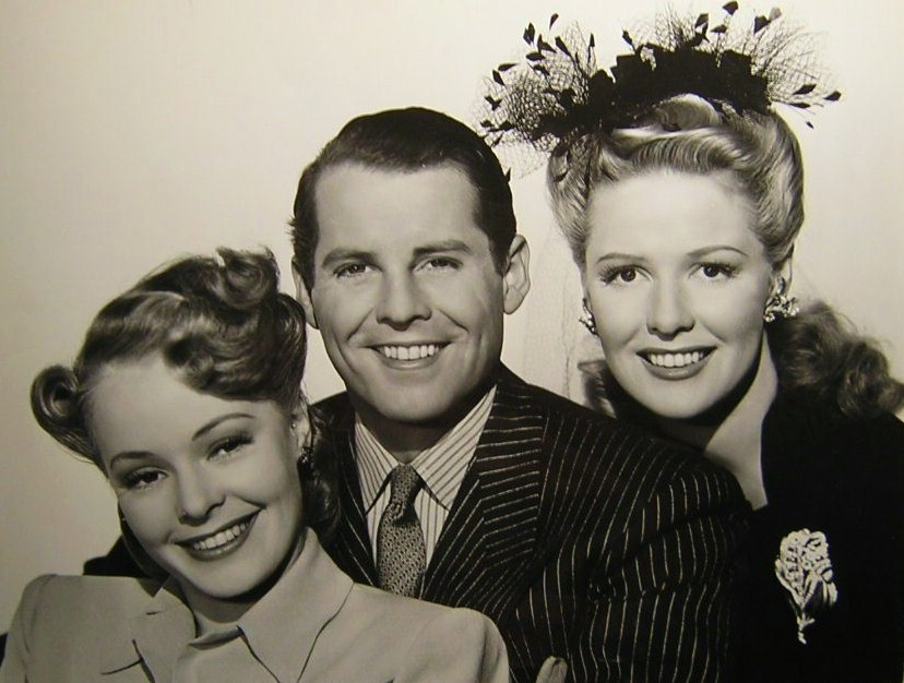 L. to R. : Virginia Gilmore, James Ellison, and Janis Carter in the film That Other Woman (1942) - publicity still (original image cropped : see source)